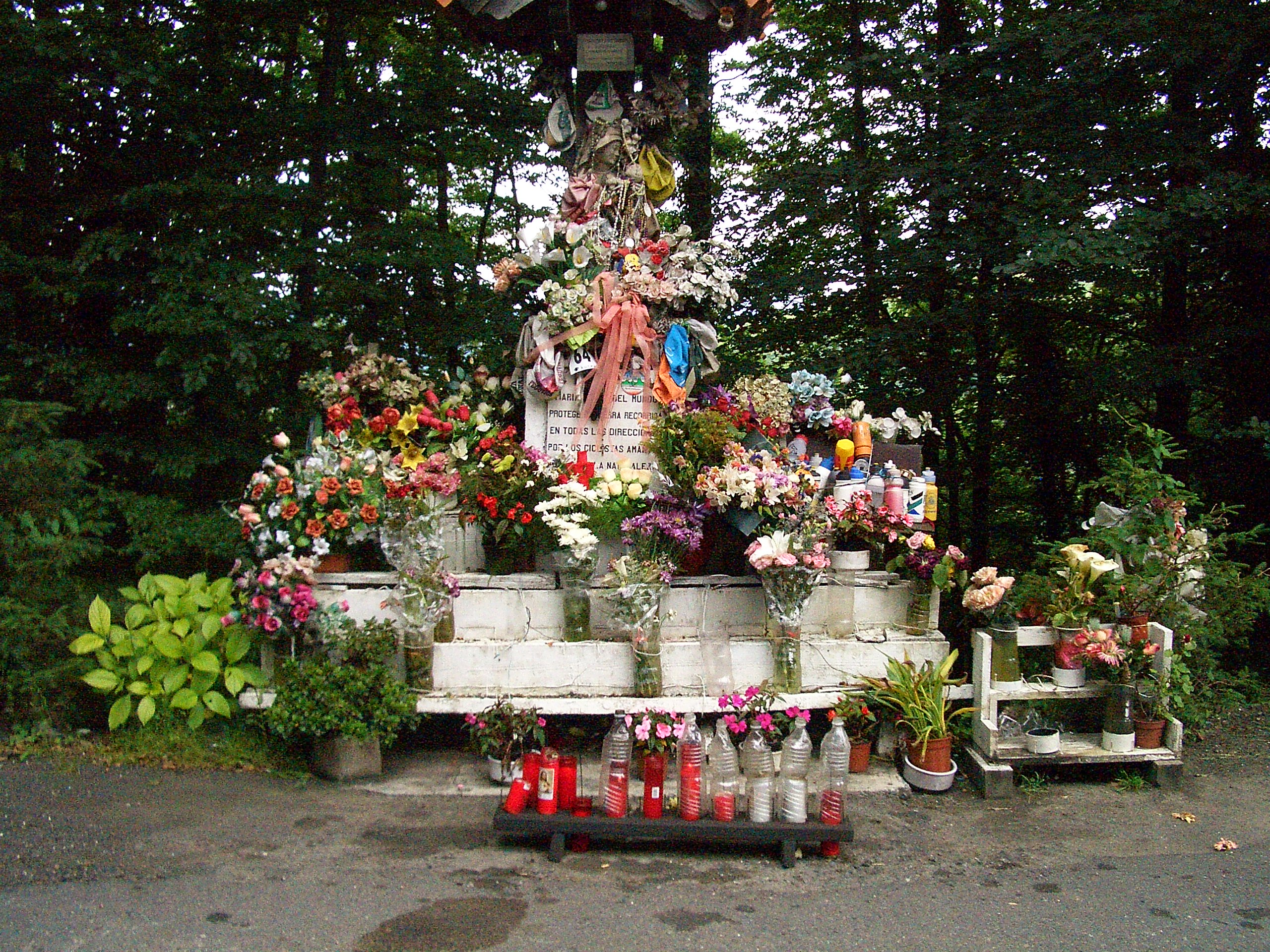 Santa Maria the patron saint of bicyclists, seen on GI-627, near Leintz-Gatzaga, between Vitoria-Gasteiz and Aretxabaleta